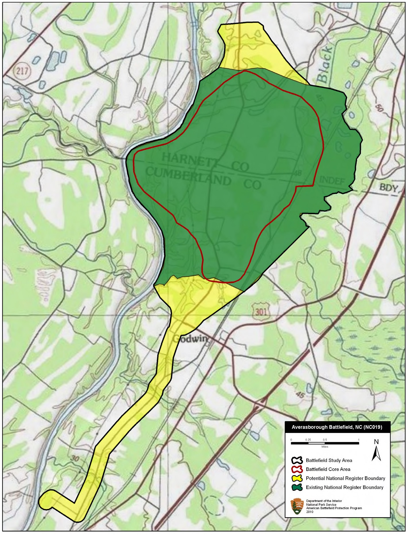 Map of battlefield core and study areas.